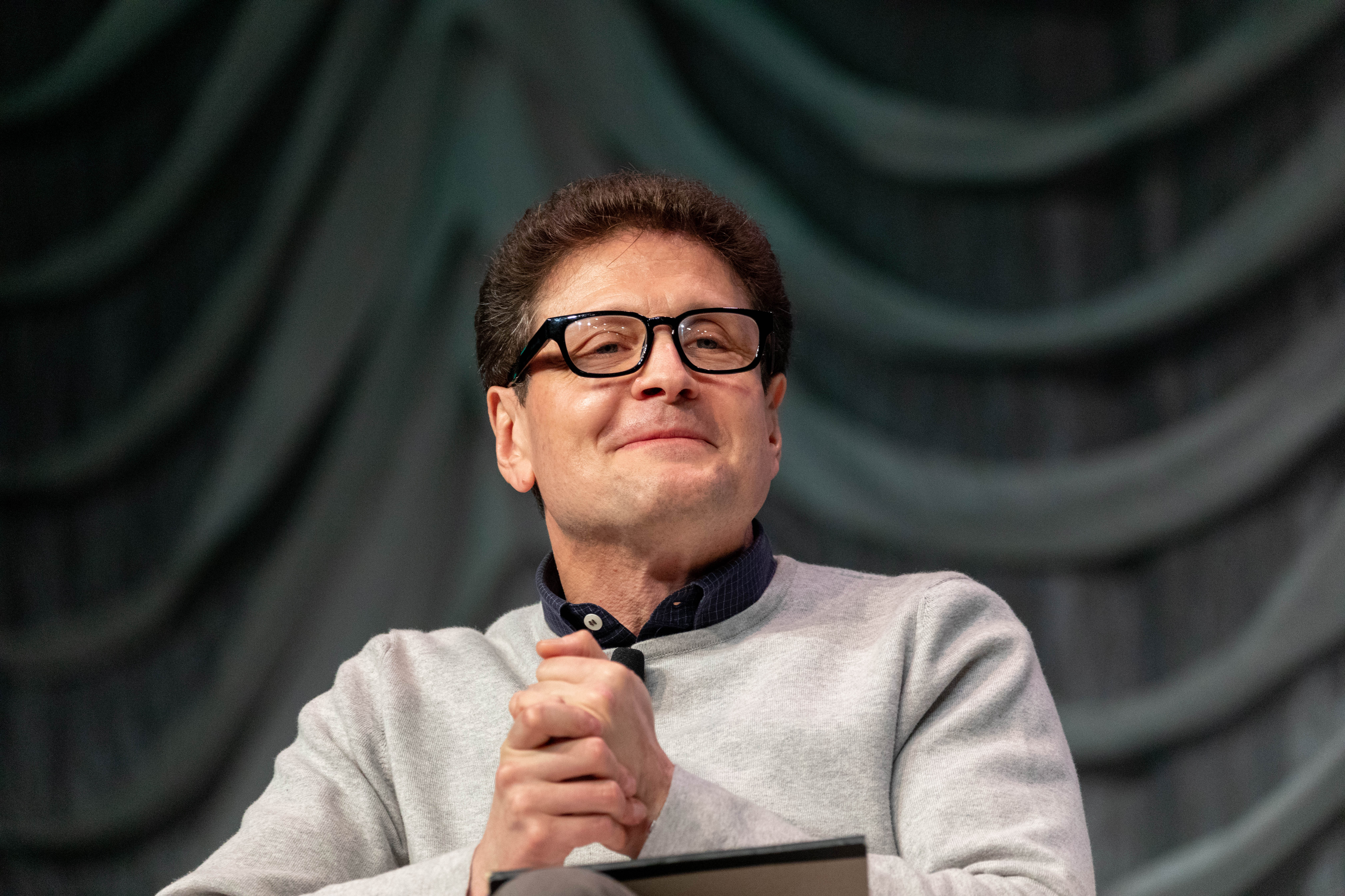 Charles Melcher at the South by Southwest 2019. Photo: Ståle Grut / NRKbeta